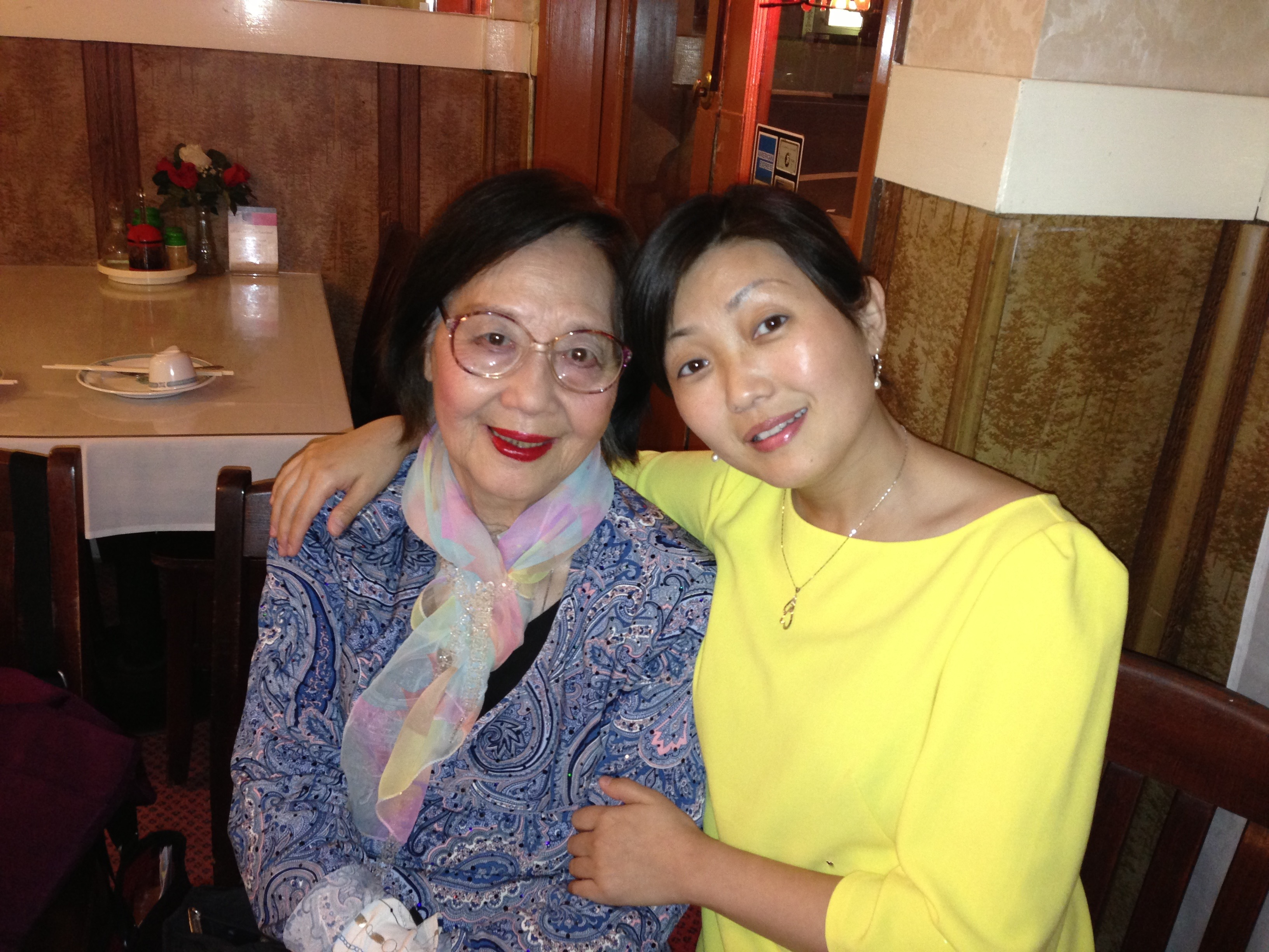 Liang Ping (left)